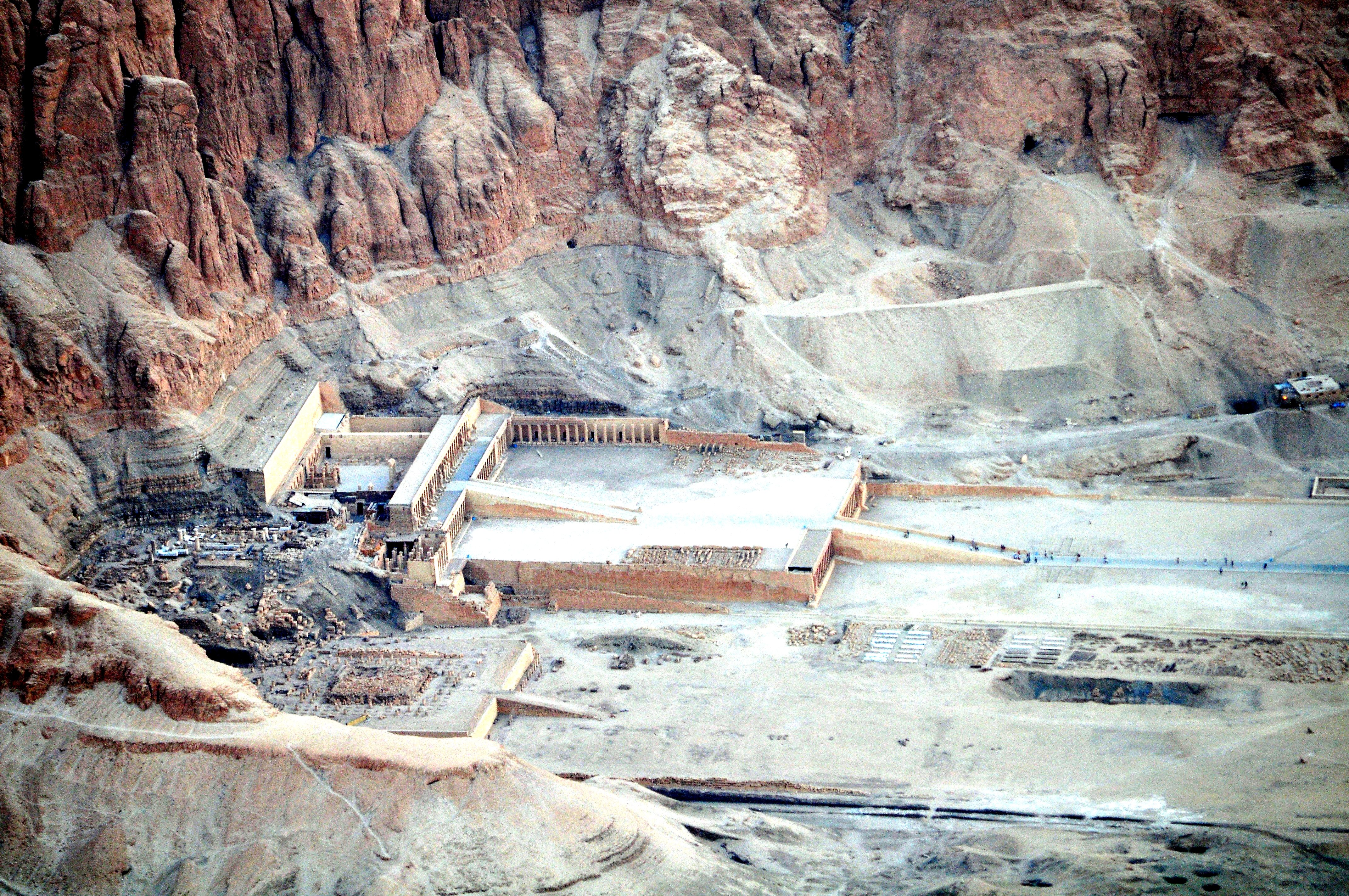 A once in a life experience to see this wonderful place from above in a Ballon !